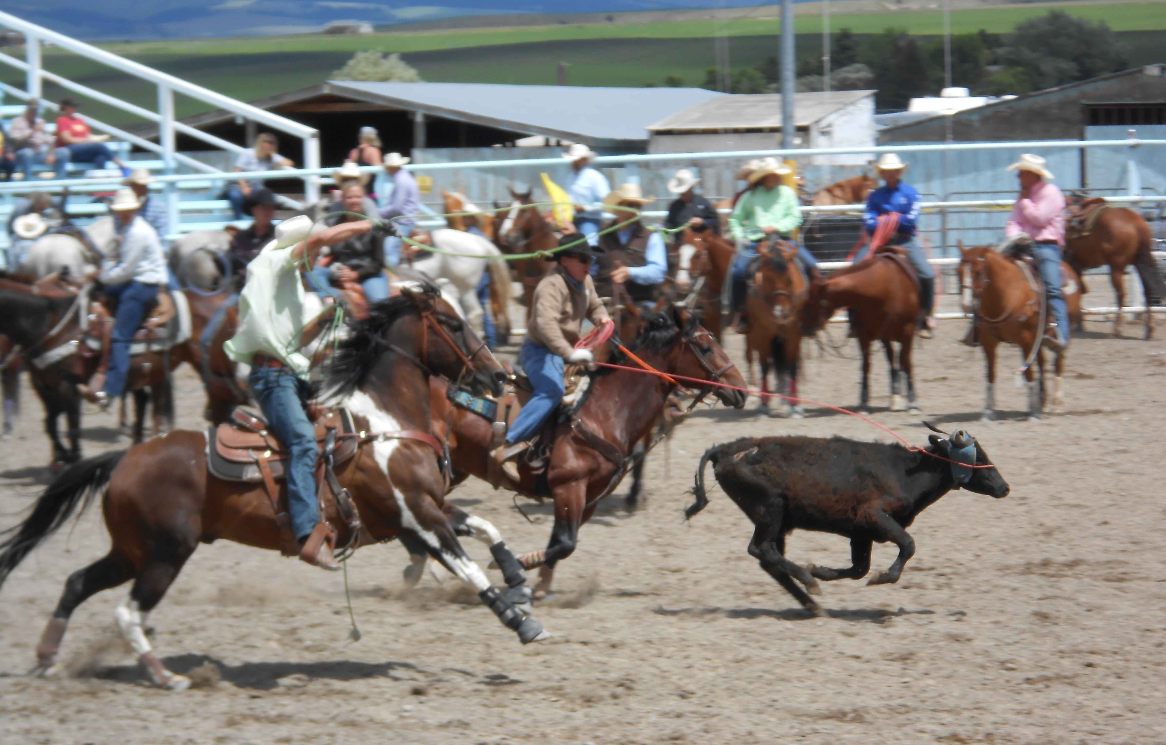 Team roping competition in Townsend, Montana June 2014. The header (to left of steer) ropes the horns of the steer while the heeler (closest to camera) prepares to rope the steer's hind legs